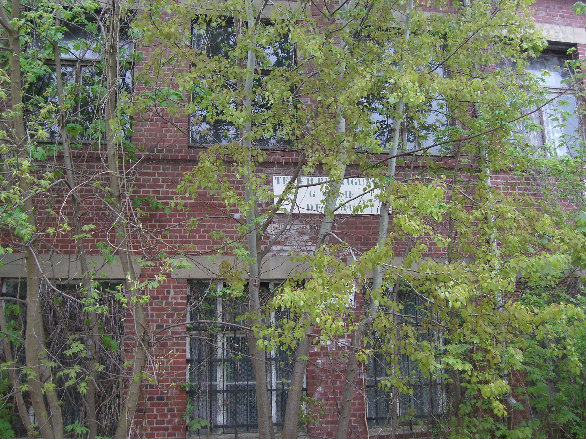 Former car factory of Friedrich Lutzmann in Dessau.